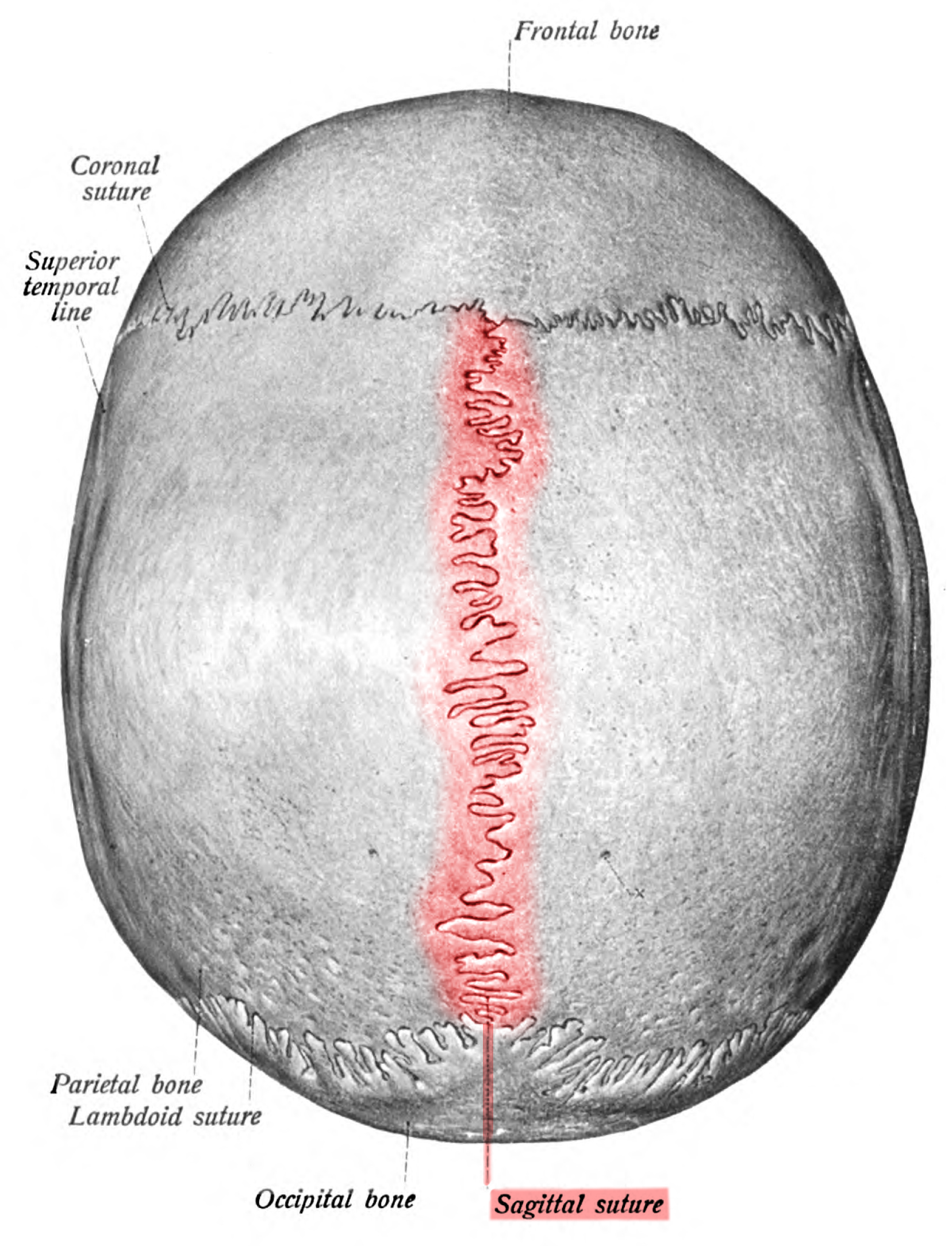 Sagittal suture. Shown in red.